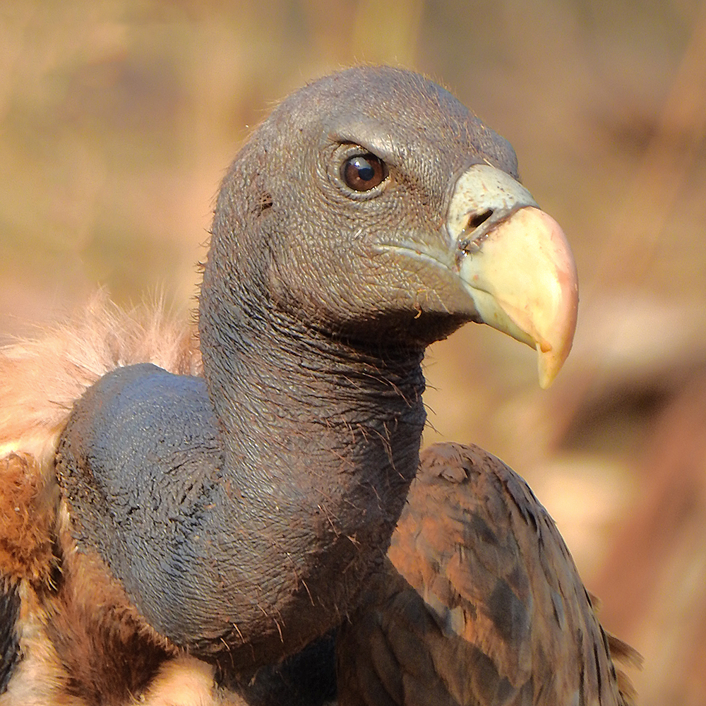 Photograph by Shantanu Kuveskar Location : Mangaon, Raigad, Maharashtra, India